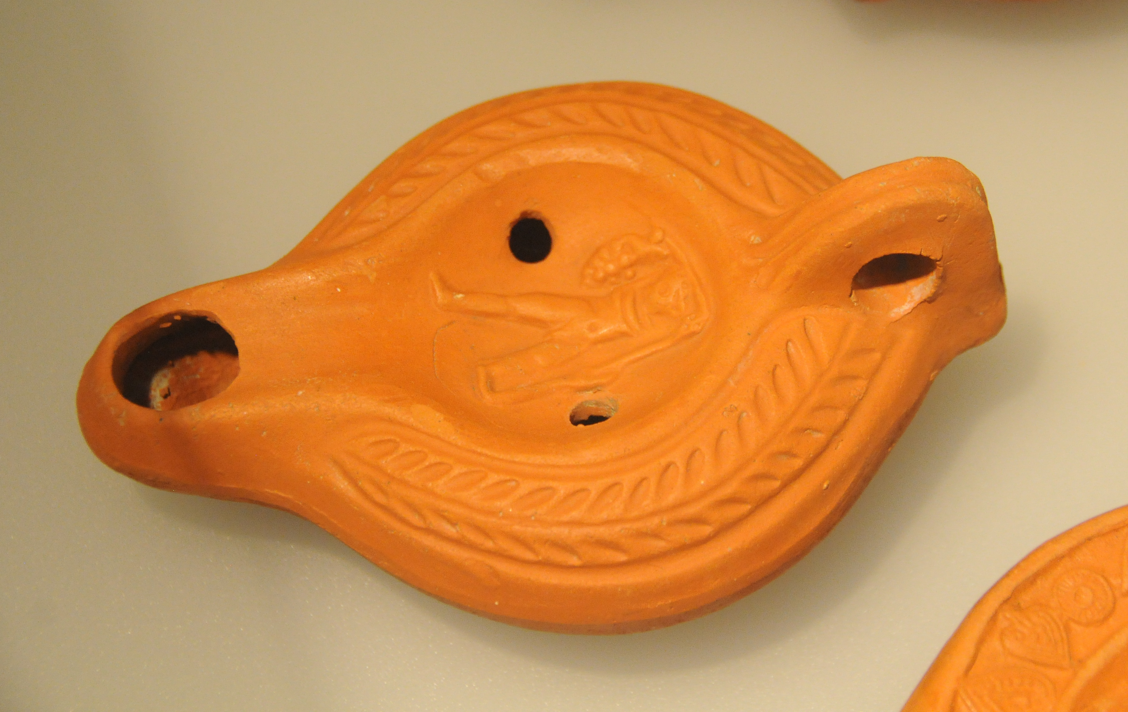 Ancient Roman oil lamp in D. Diogo de Sousa Museum, Braga, Portugal.